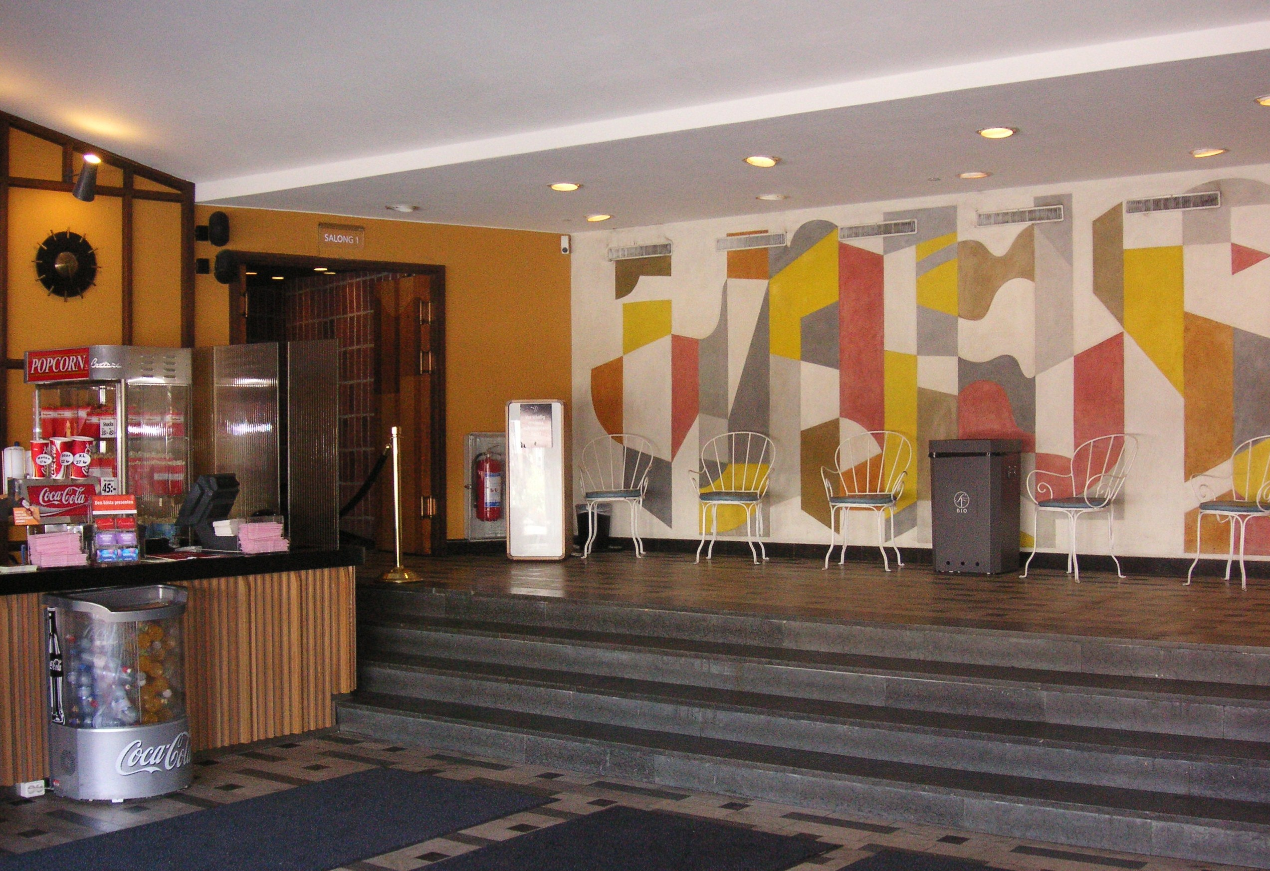 Cinema "Fontänen" in Vällingby